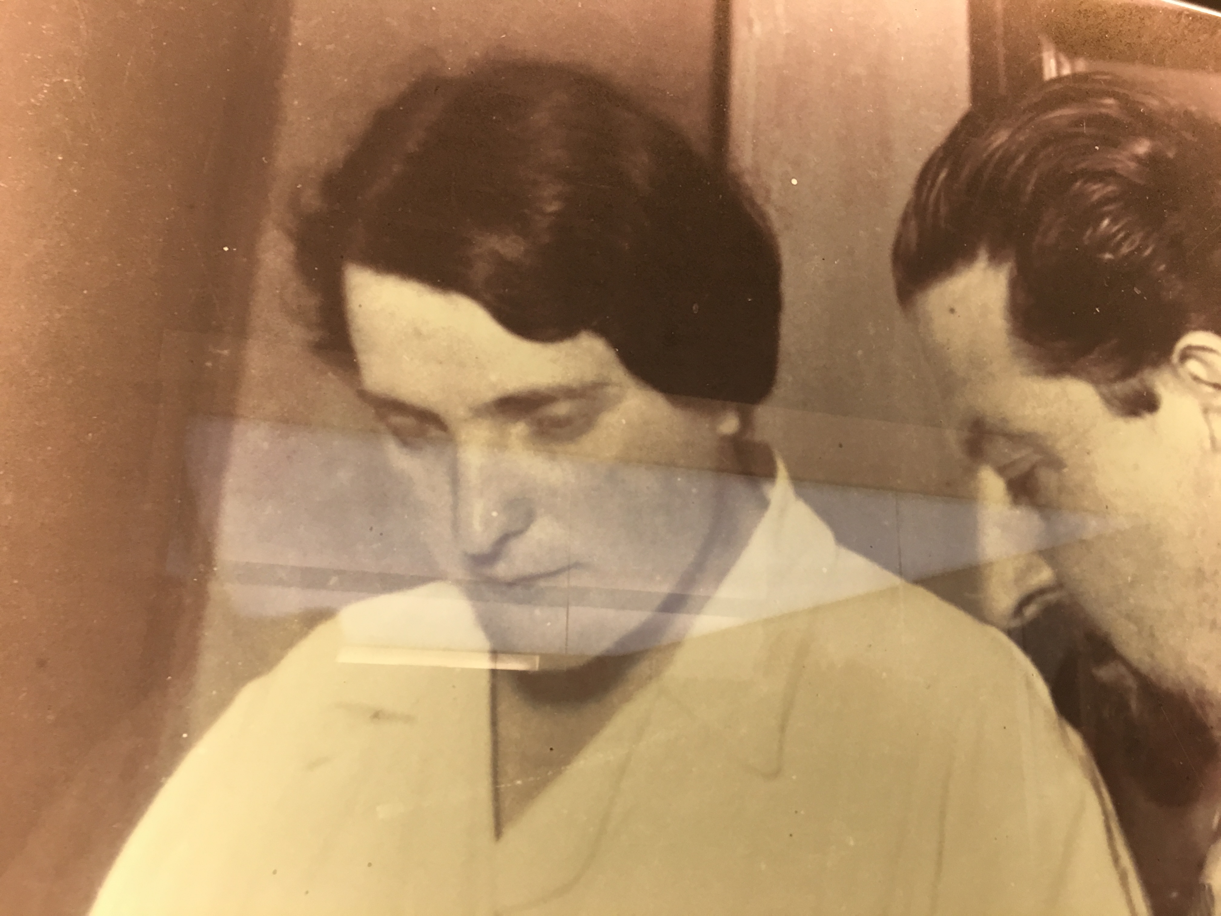 Photograph of Erminia Caudana displayed in the Museo Egizio, Turin, Italy